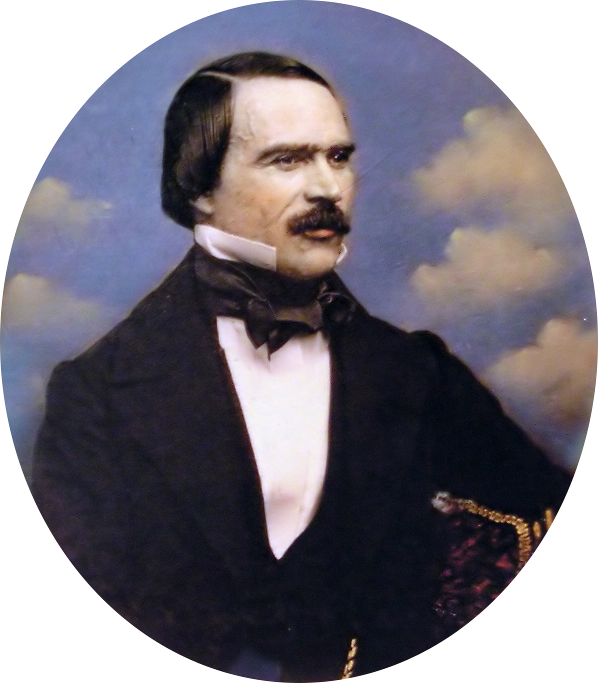 Portrait of the Carlist leader Ramón Cabrera. Daguerreotype made by W.E. Kilburn in 1850, now in the Museum of the Army, in Madrid, Spain. The picture was taken in the exhibition "History of the photography in Spain. Photography and community from its origins to the 21st century".